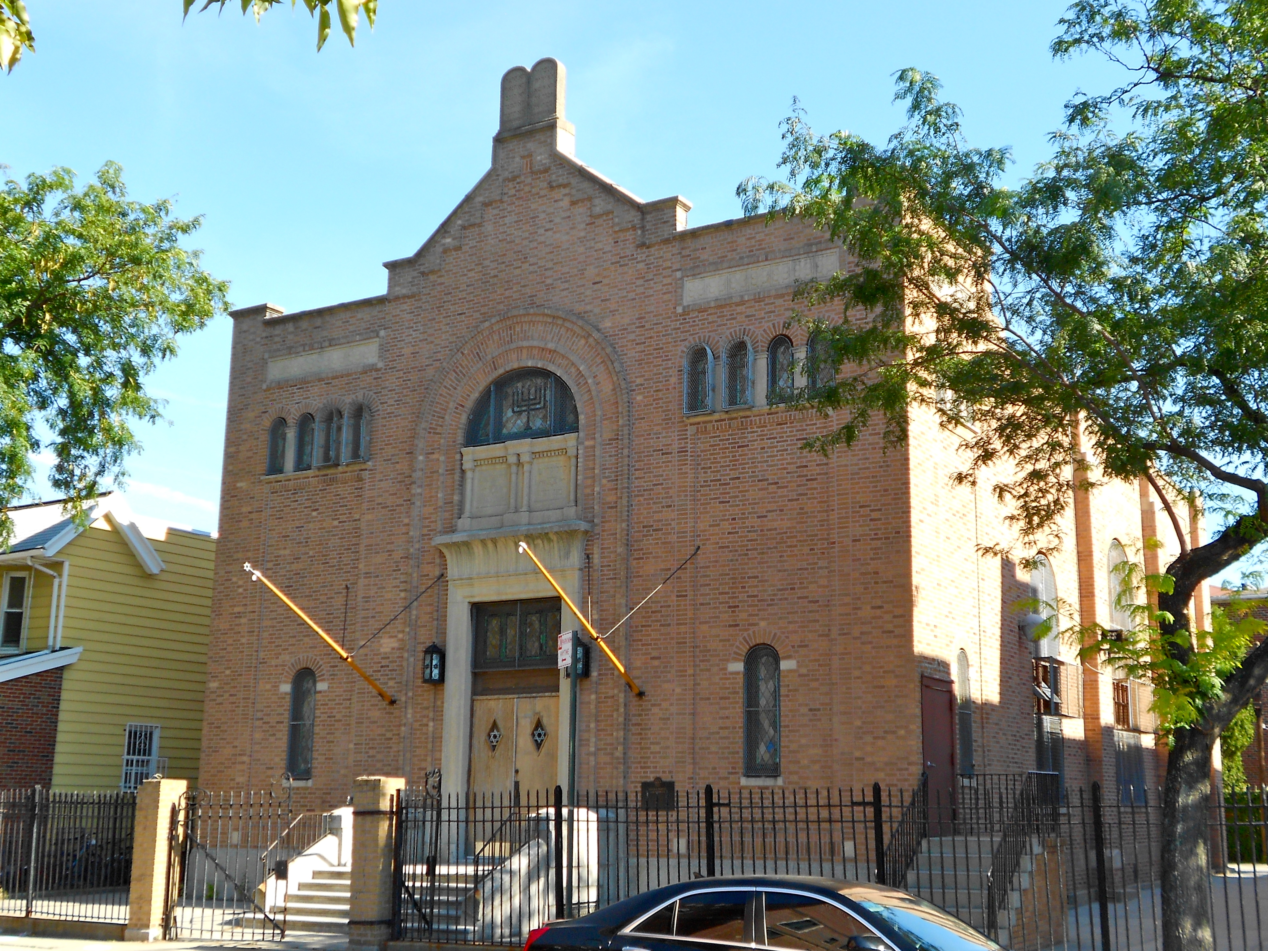 Magen David Synagogue Listed on the NRHP April 15, 2004. At 2017 67th St., Bensonhurst, Brooklyn, New York